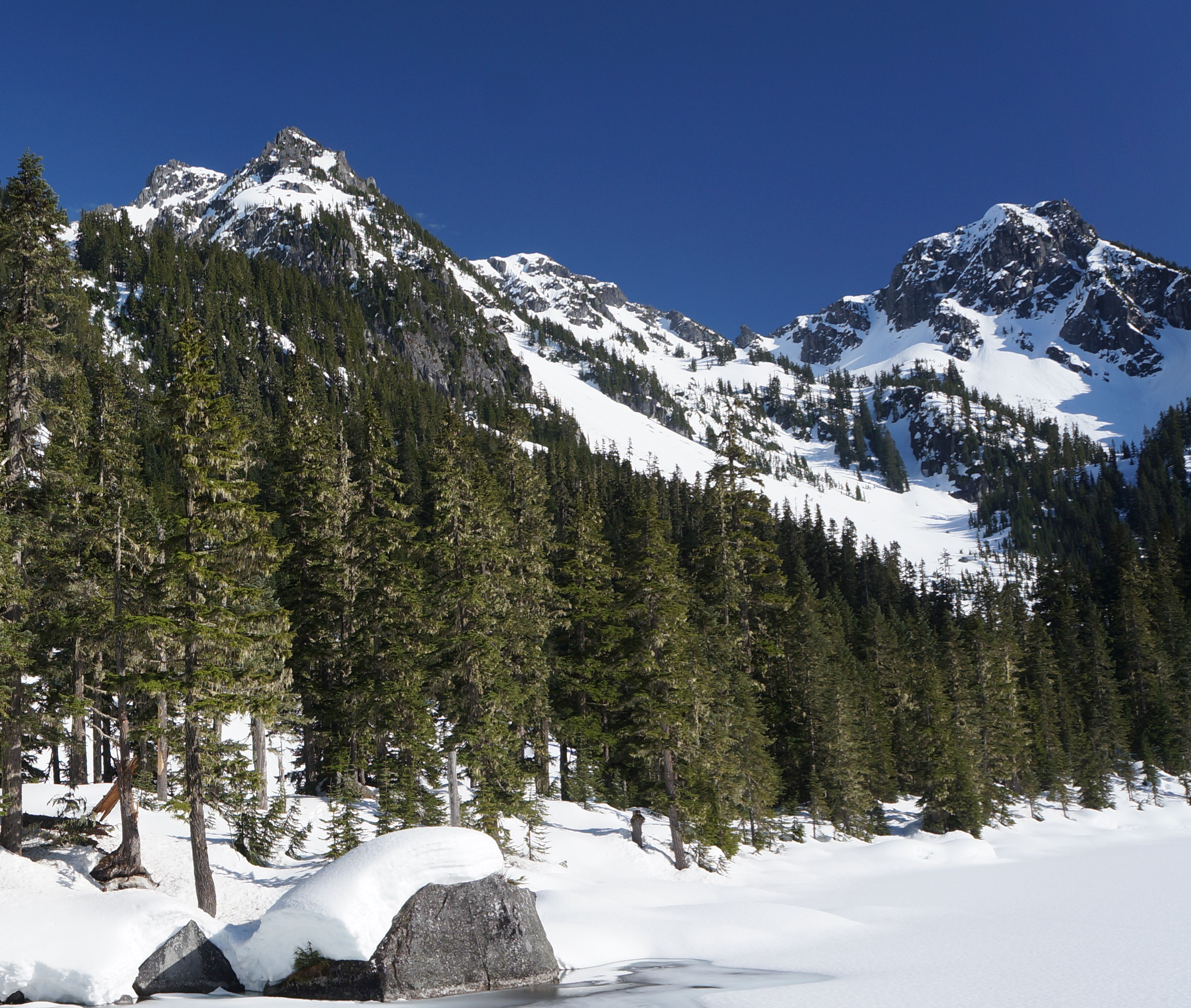 View from the north-west of Surprise Lake- impressive ridge of Nimbus and Thunder towering over the valley